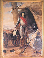 ArtistUnknownTitle